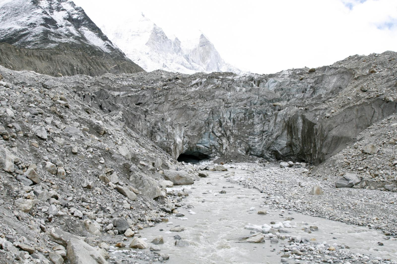 Gangotri/Gaumukh Namarupa Mahayatra 2009 (Terminus of the Gangotri Glacier, Gangotri, Uttarakhand, India)